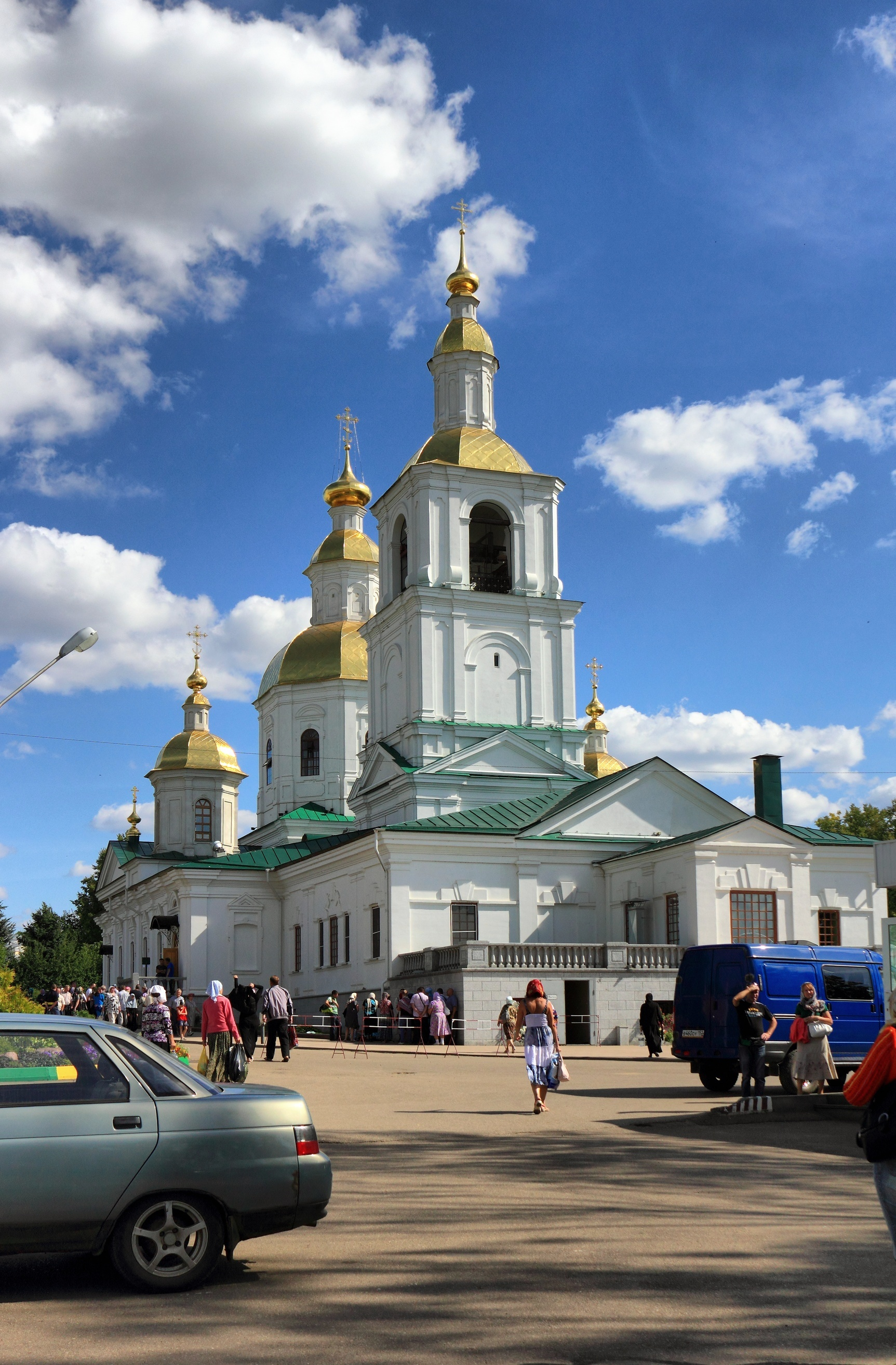 Diveyevo. Serafimo-Diveevsky Monastery. Kazan church